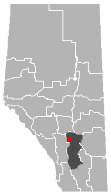 Location of Acme, Alberta